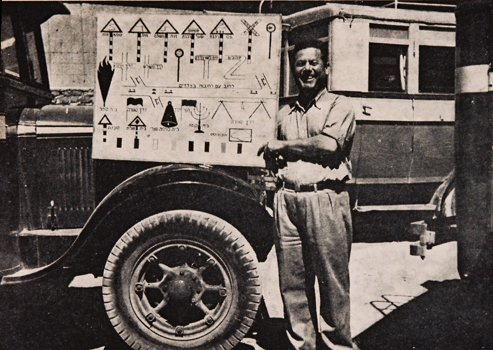 Trafic signs